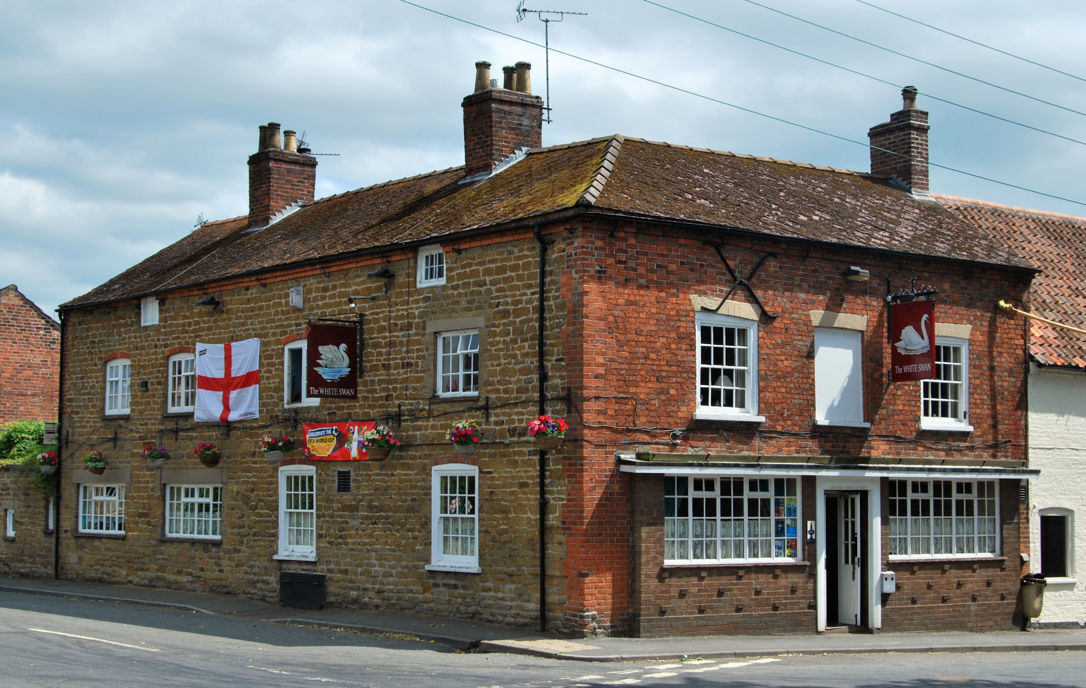 Barrowby,Lincolnshire. The White Swan during a moment of football World Cup fever.